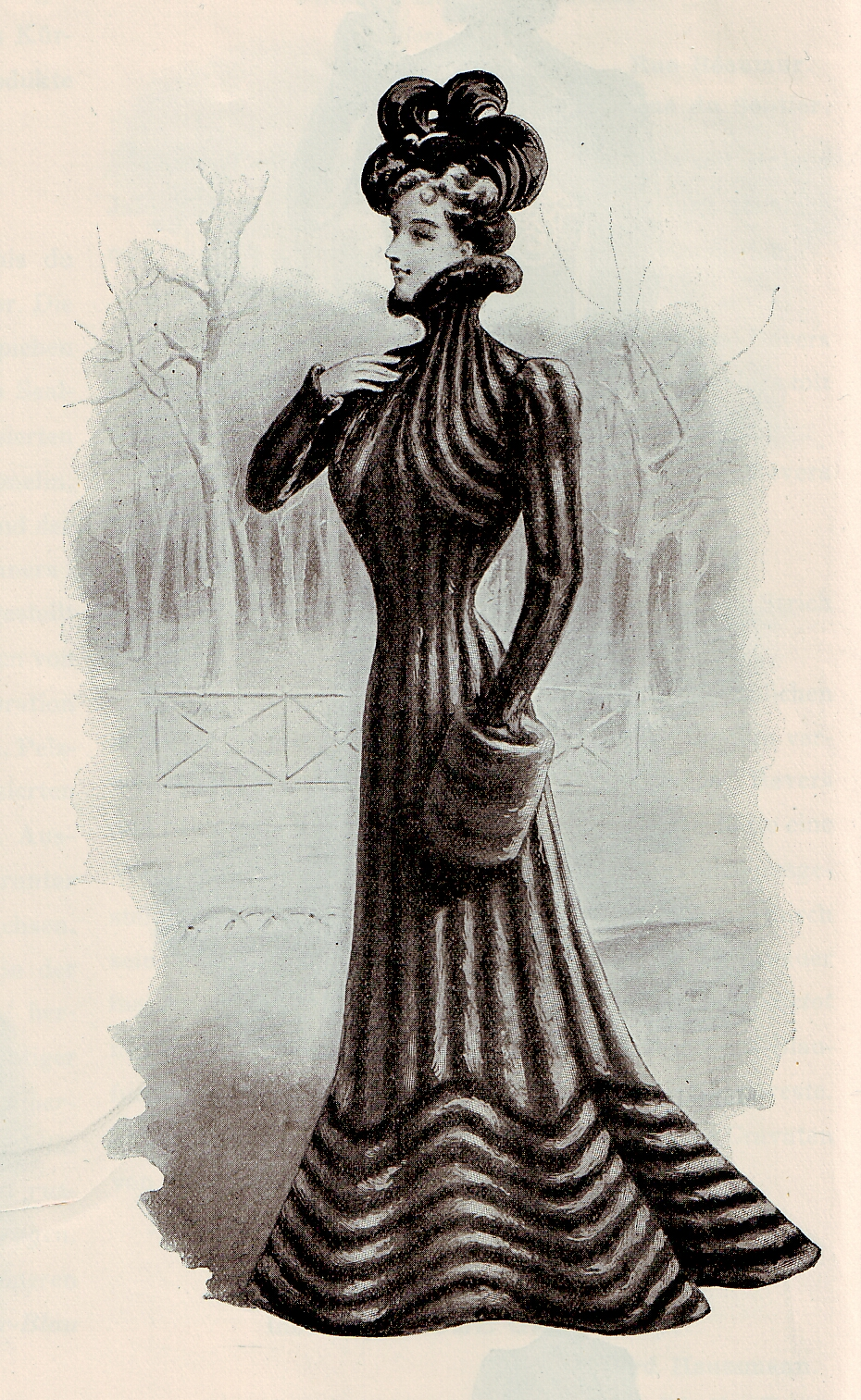 Mink dress